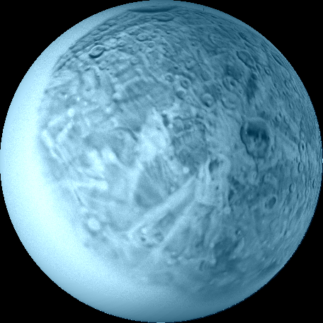 The map of Oberon showing known geological features. The large crater with the dark floor (right of center) is Hamlet.